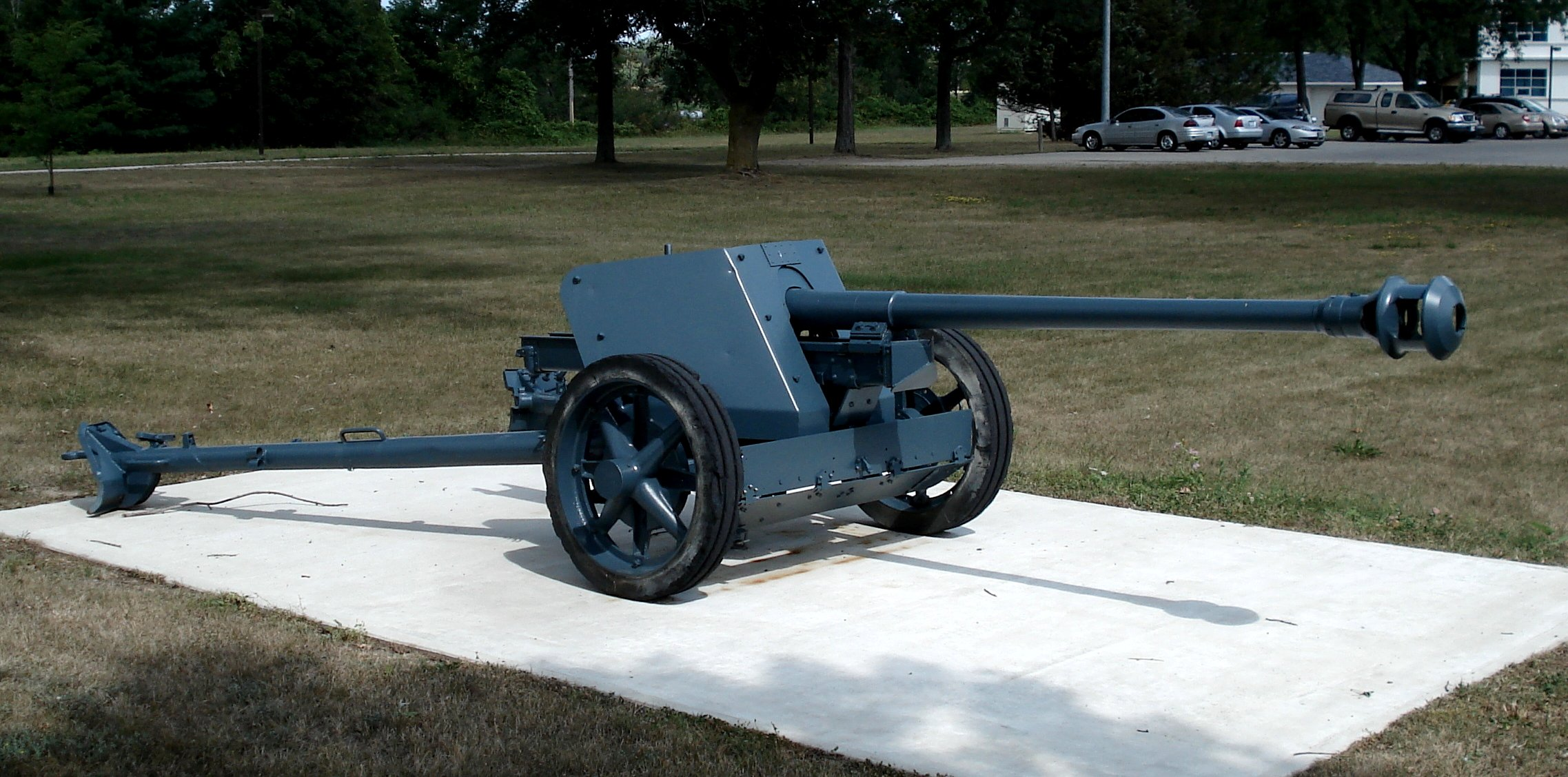 German PaK 40 75 mm anti-tank gun. This example is displayed on the grounds of CFB Borden (Base Borden Military Museum). Photo taken on August 18, 2006. Source: Photo by me, User:Balcer.